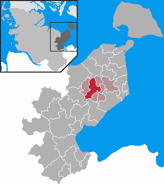 This map shows the area of the Gemeinde (municipality) Lensahn in the Kreis (district) Ostholstein, Schleswig-Holstein, Germany.